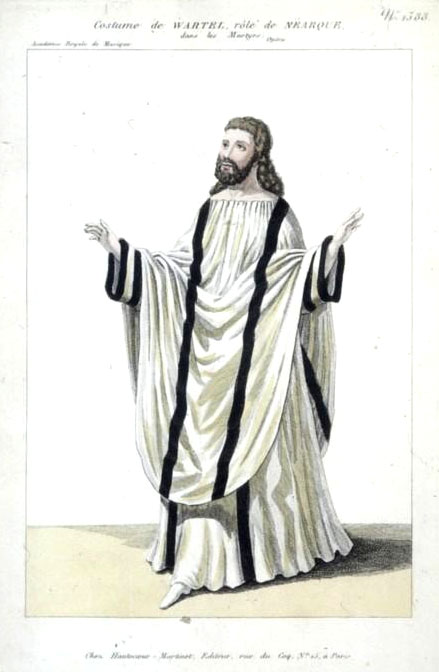 Costume design for Pierre François Wartel in the role of Néarque in Donizetti's Les martyrs for the premiere at the Paris Opera (Salle Le Peletier) on 10 April 1840.